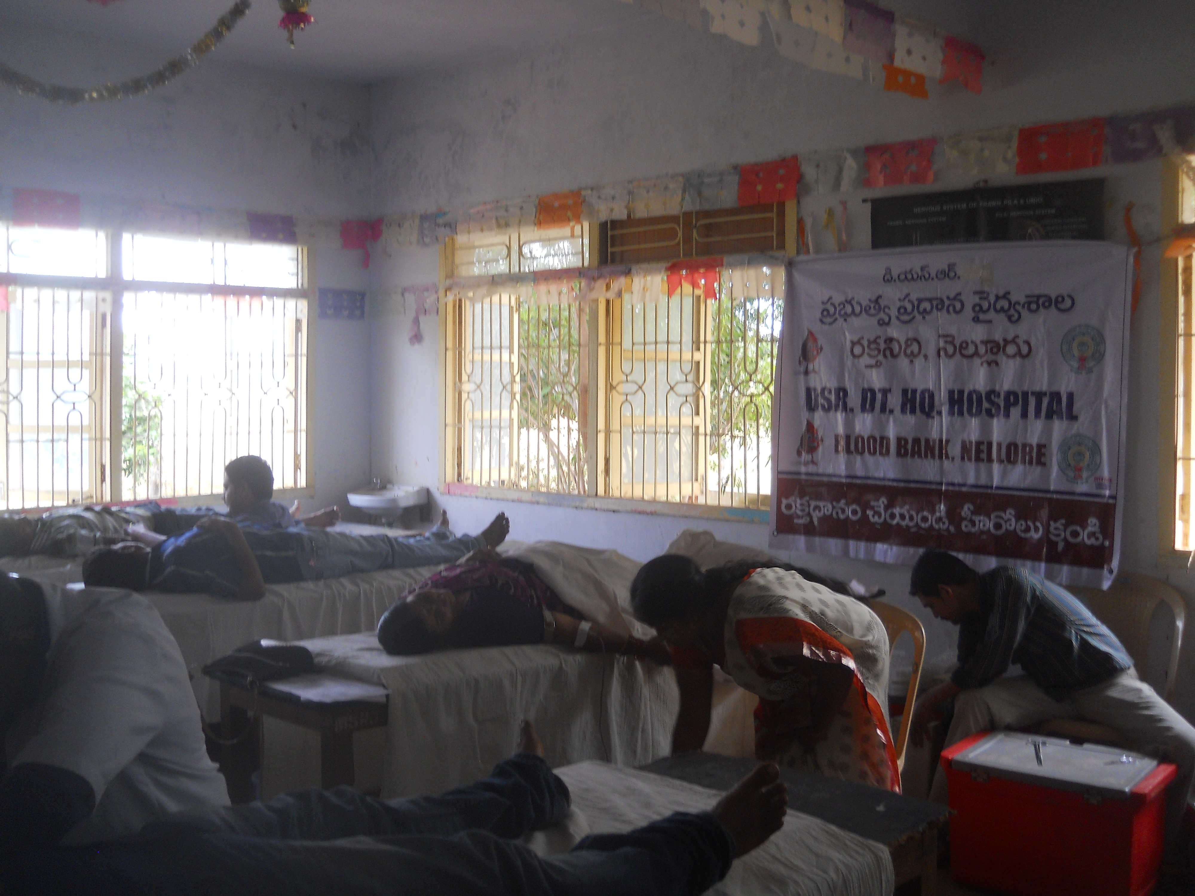 Voluntary Blood donation